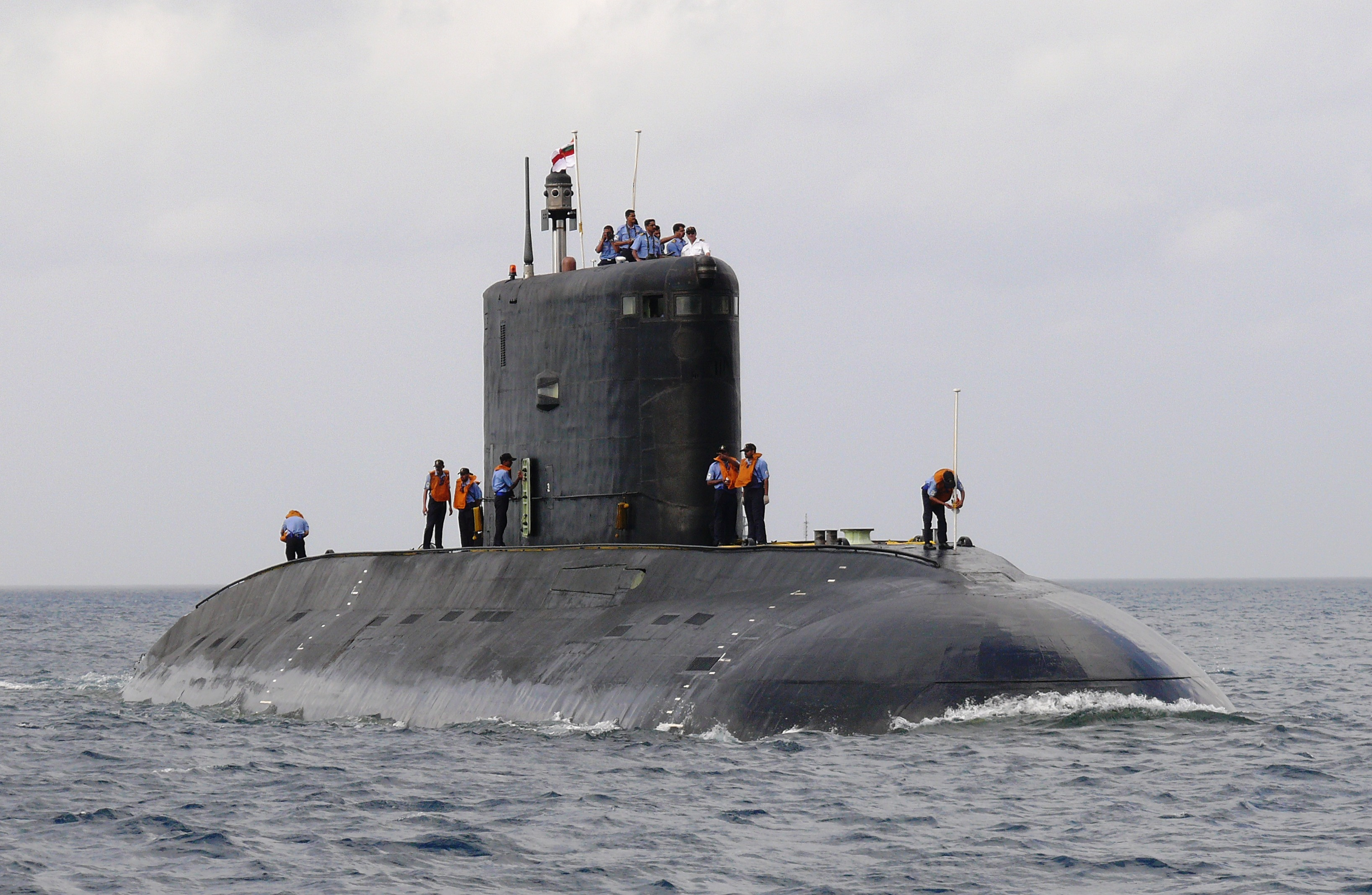 S-62 Sindhuvijay